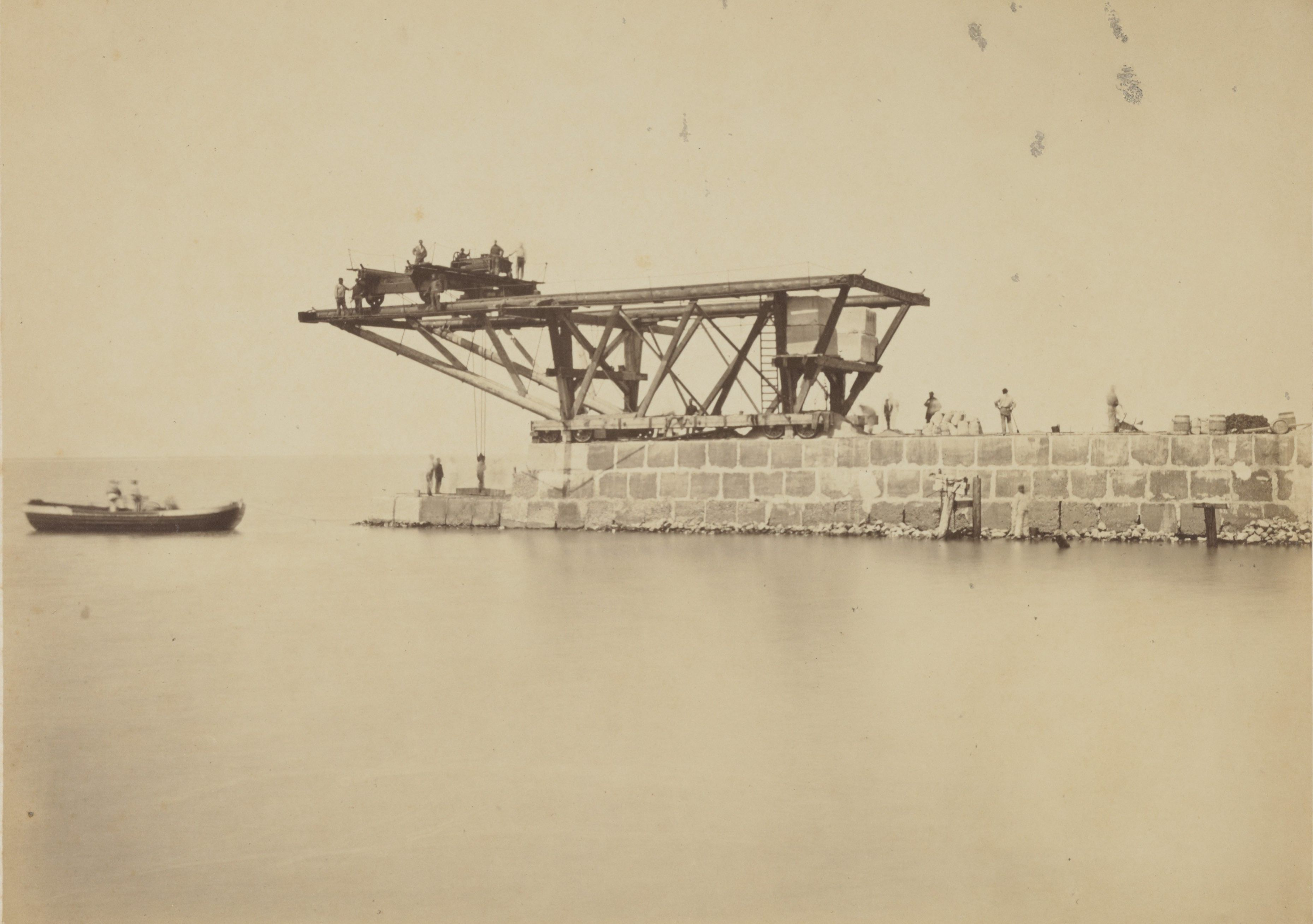 Construction of a port dam in the mouth of the North Sea Canal. Face from side to the hoist installation